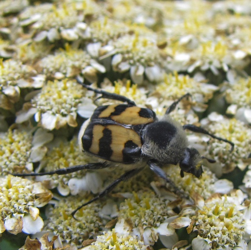 Bee beetle